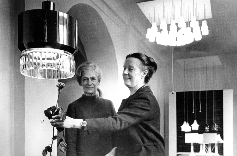 Photograph of the Finnish designers Dora Jung (1906–1980) and Lisa Johansson-Pape (1907–1989) at their joint exhibition in Stadsmuseet, Stockholm, Sweden.